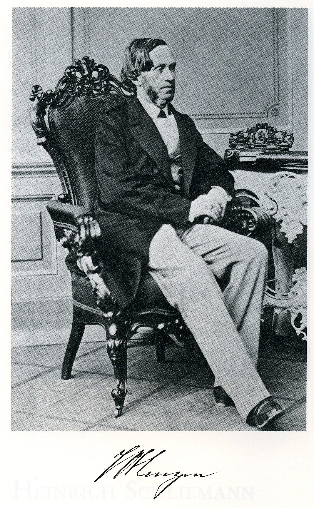 Wilhelm Henzen (1816-1887), german Archaeologist